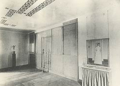 Khnopffs Blauwe kamer